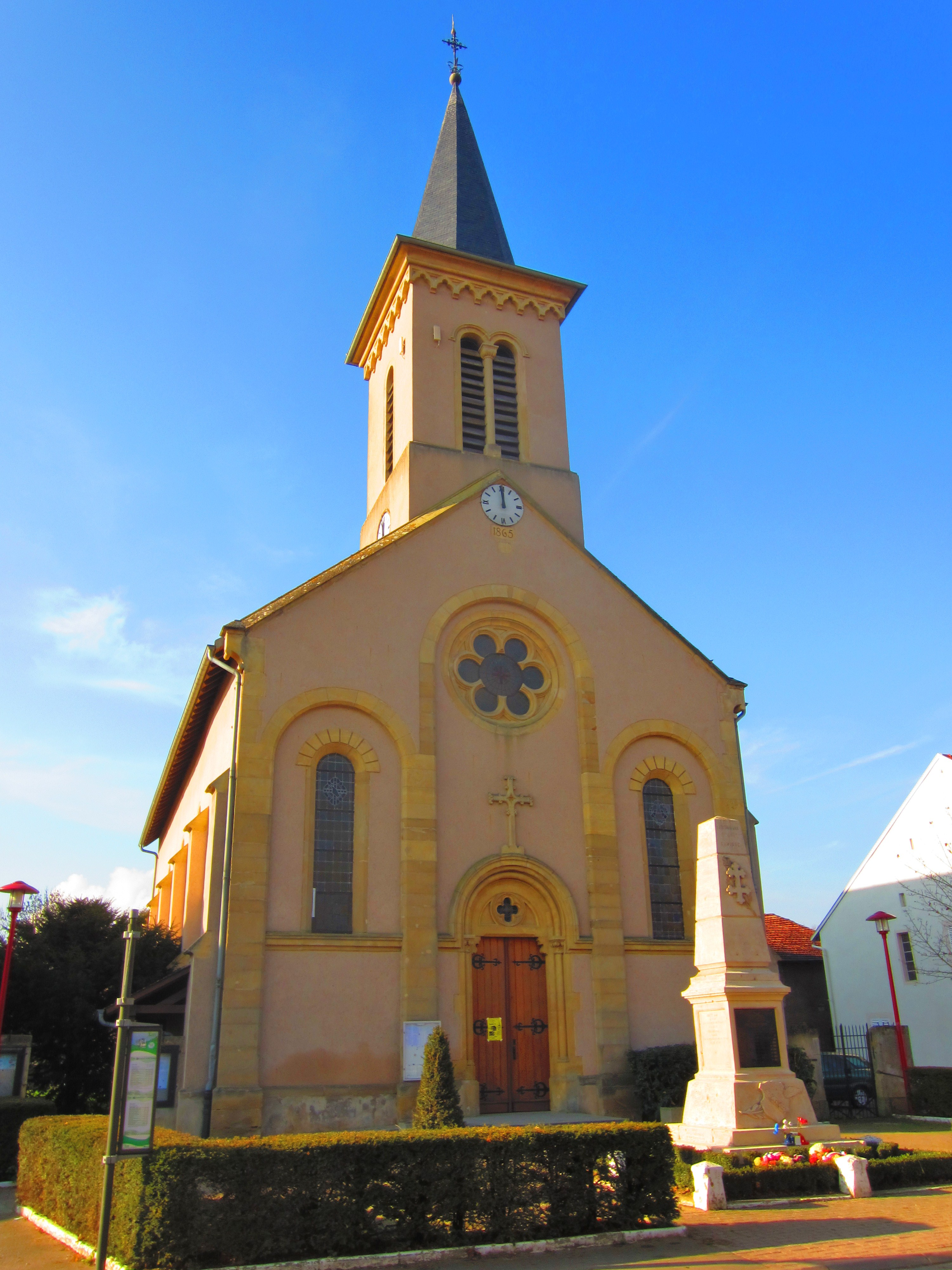 Description eglise Gavisse Date21 November 2011Sourcemon appareil photoAuthorAimelaimePermission (Reusing this file) eglise Gavisse